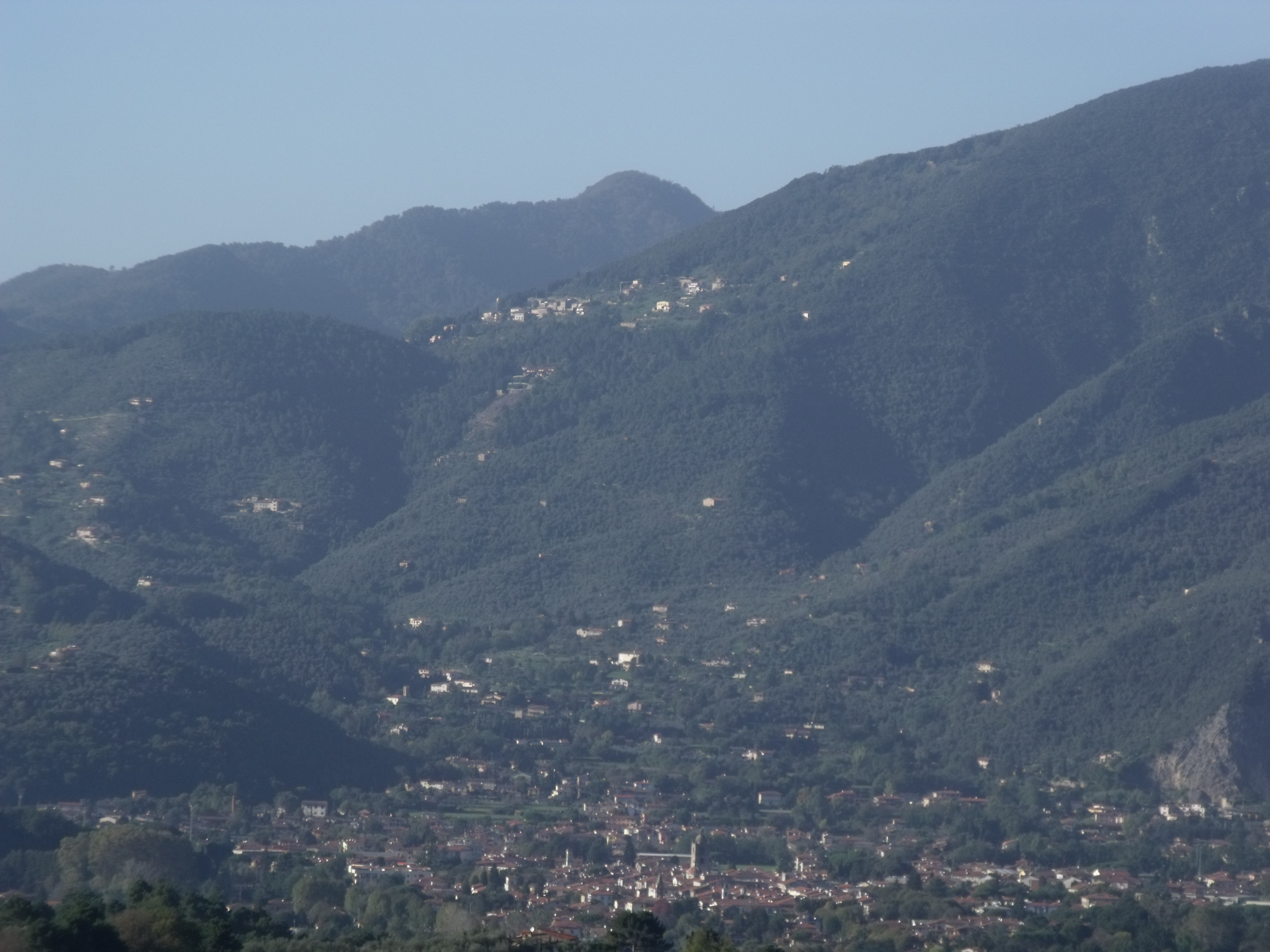 Panorama of Camaiore, seen from Montemagno, Province of Lucca, Tuscany